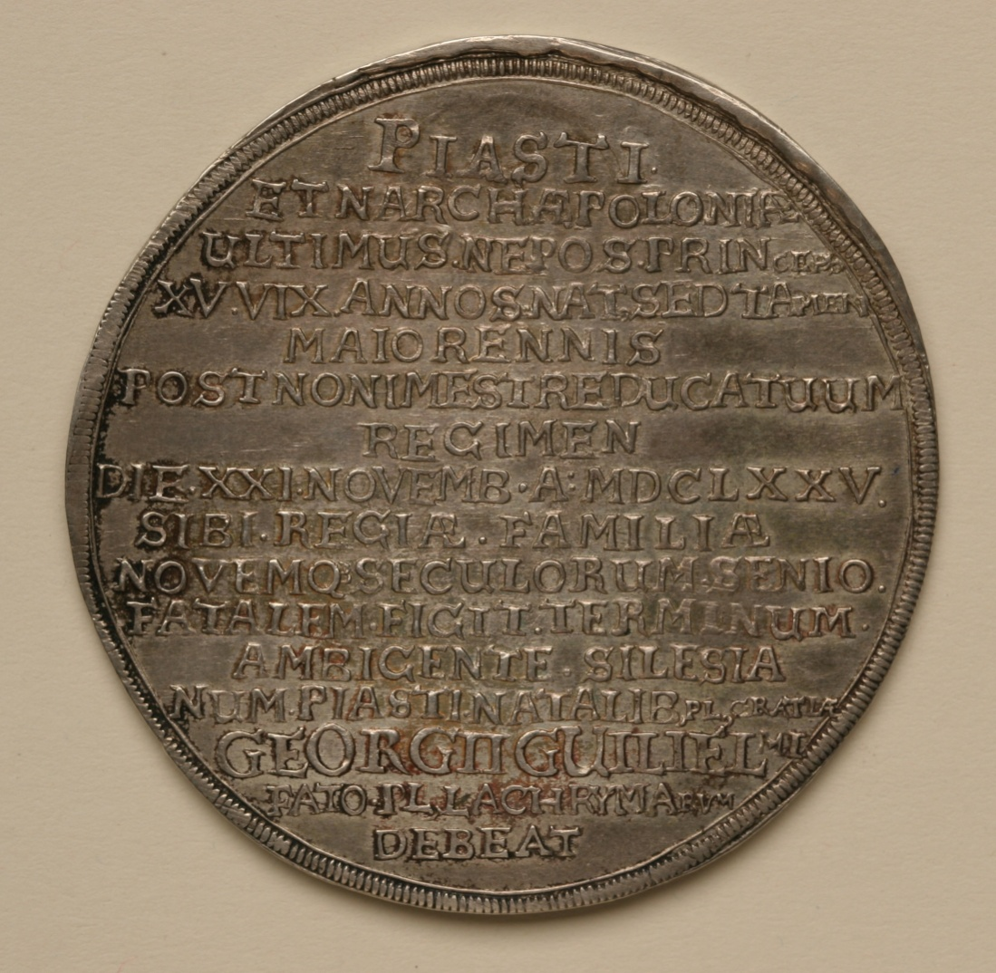 Funerary medal 1675 Inscription: PIASTI ET NARCHÆ POLONIÆ ULTIMUS NEPOS PRINceps XV. VIX ANNOS NAT[us] SED TAmen MAIORENNIS POST NONIMESTRE DUCATUUM REGIMEN DIE XXI. NOVEMB. A[nno] MDCLXXV. SIBI REGIÆ FAMILIÆ NOVEMQ. SECULORUM SENIO. FATALEM FIGIT TERMINUM AMBIGENTE SILESIA NUM PIASTI NATALIB[us] PL[us] GRATIÆ GEORGII GUILIELMI FATO PL[us] LACHRYMARUM DEBEAT Translation: The last descendant of the Piast ruler of Poland, the Duke almost in his 15th year of life, but as of age after nine months of ruling; on 21 November 1675 his life and nine centuries of the royal house lamentably ended; Silesia is in confusion, whether to be more grateful for the birth of the Piast or more sorrowful for the death of Georg Wilhelm. Tomáš Kleisner: Czech Baroque funerary medals, pp. 232-233, 241